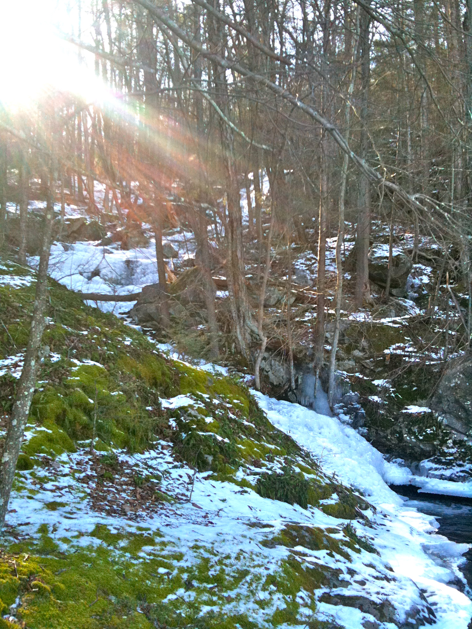 Frozen Prydden Falls on the Lake Zoar shore where Prydden Brook waterfalls empty into Lake Zoar.